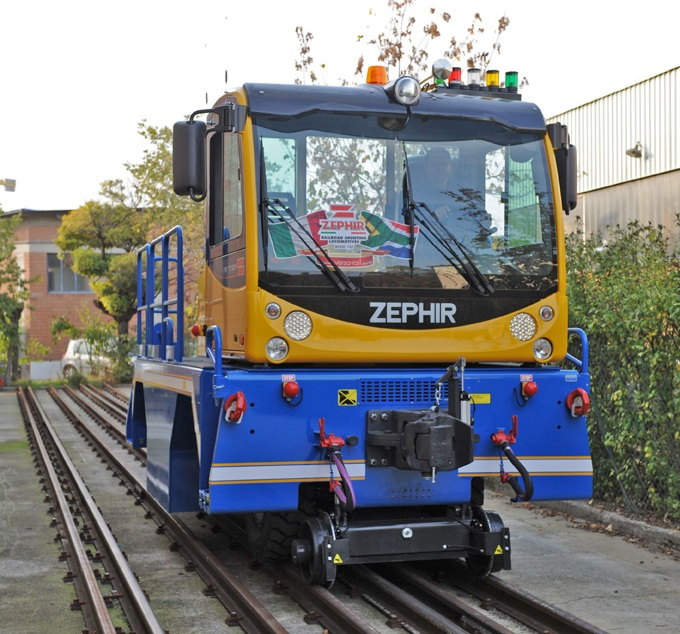 Zephir LOK